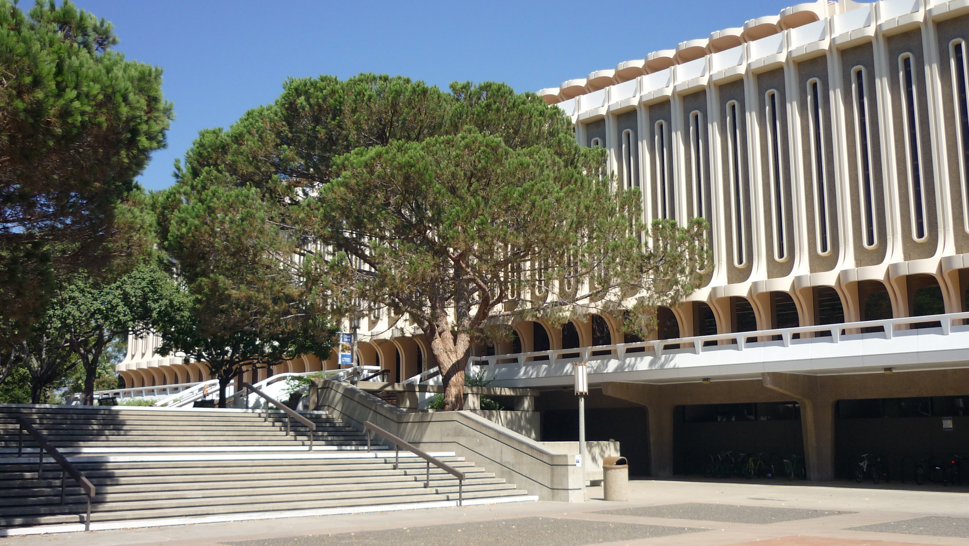 Jack Langson Library at UC Irvine is one of the eight original buildings on the campus, designed by architect William Pereira in 1965.